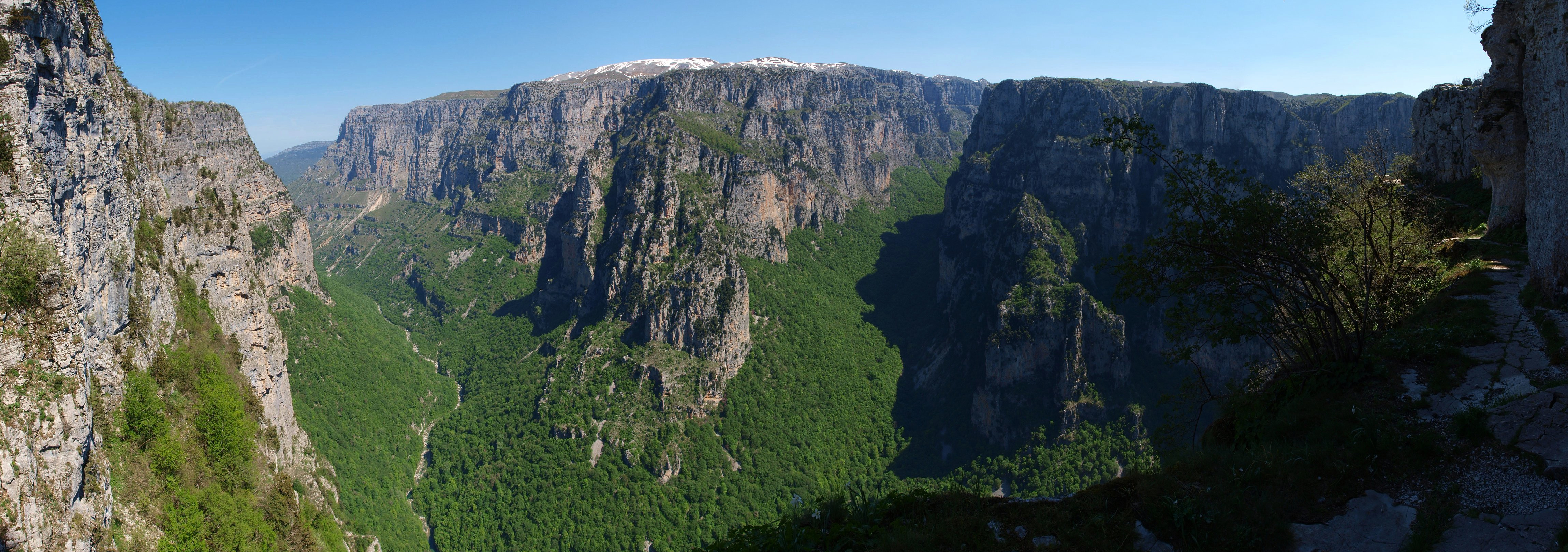 View of Vikos gorge from "Oxia" This is a photography of Natura 2000 protected area with ID GR2130001